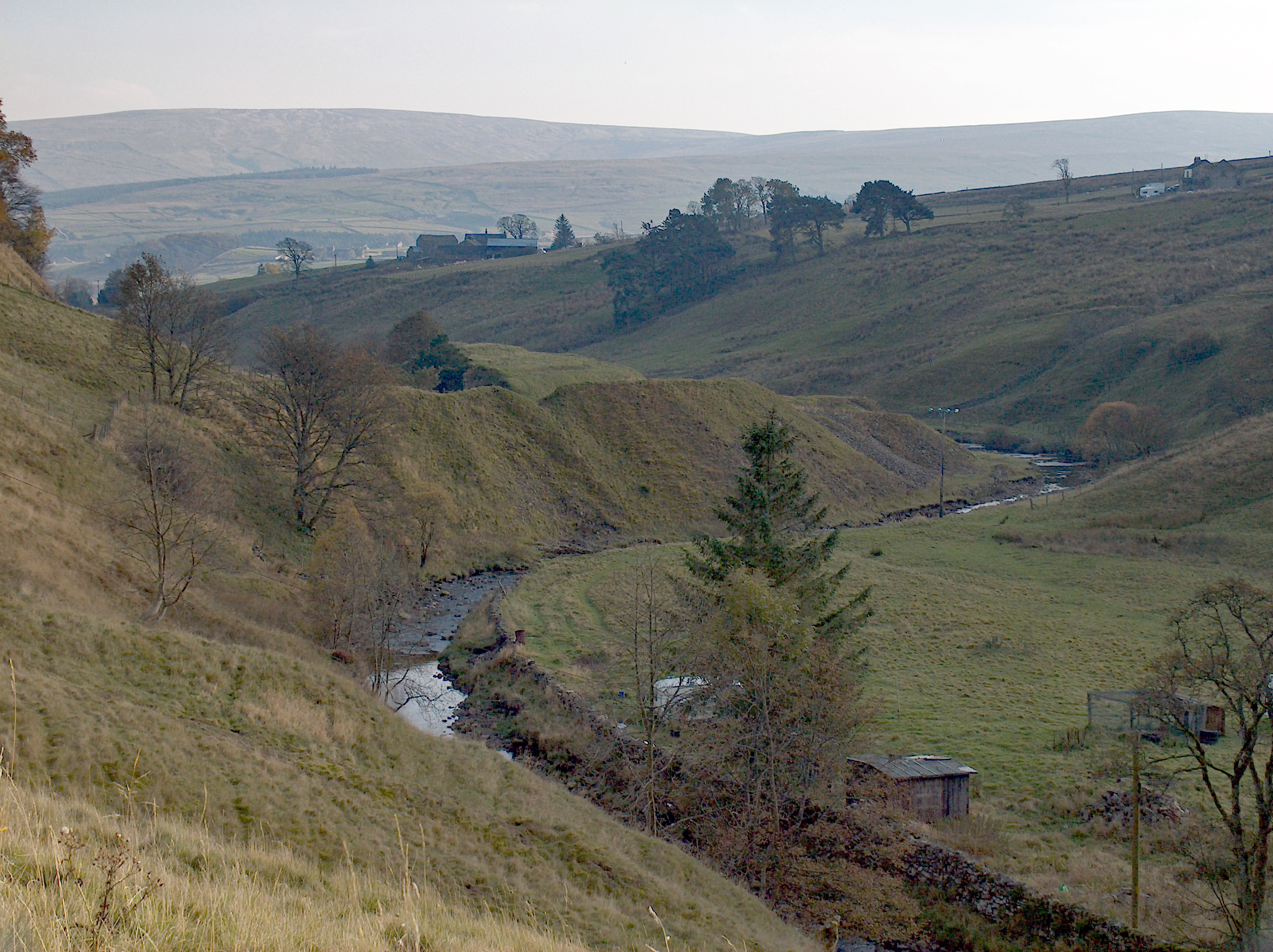 Weardale - River near Wearhead